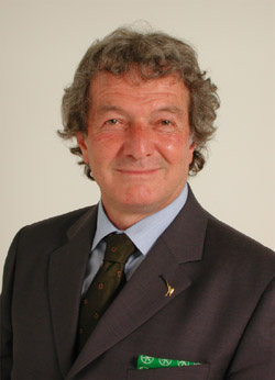 Photo of Cesare Rizzi (2001)